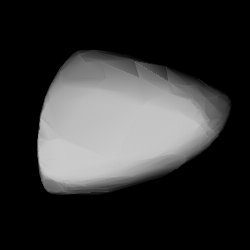 3D convex shape model of 849 Ara, computed using light curve inversion techniques. J. Hanuš, J. Ďurech, M. Brož, B. D. Warner (June 2011). "A study of asteroid pole-latitude distribution based on an extended set of shape models derived by the lightcurve inversion method". Astronomy and Astrophysics 530: A134. ISSN 0004-6361. arXiv